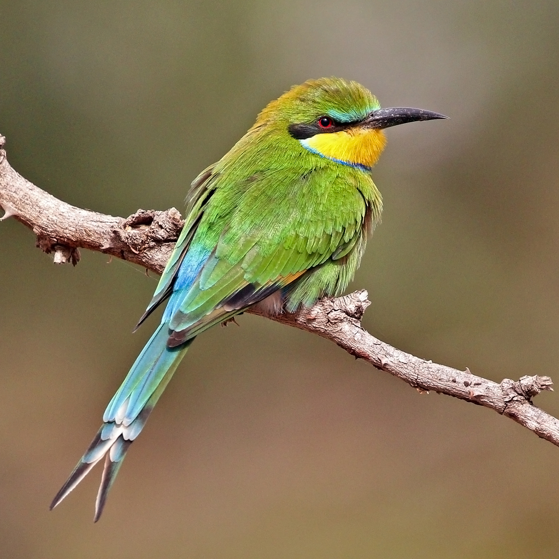 Swallow-tailed bee-eater (Merops hirundineus chrysolaimus), Senegal.